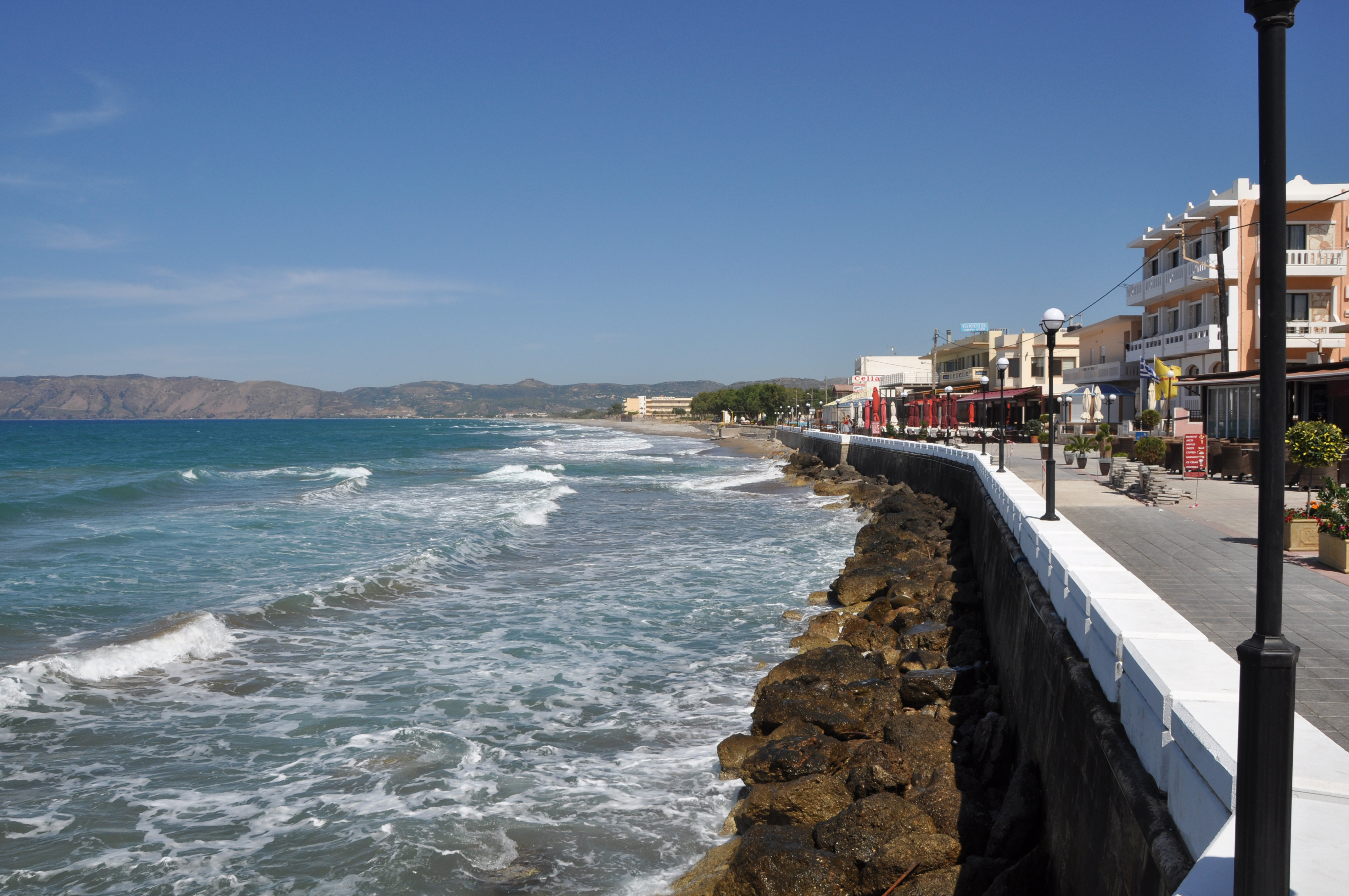 Kissamos (Crete, Greece): the Promenade